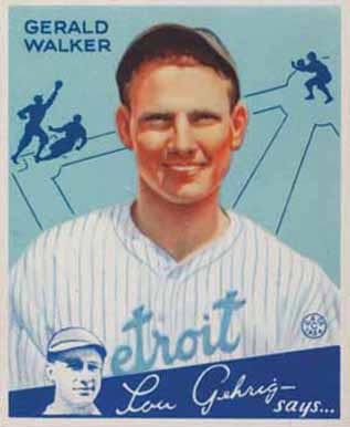 1934 Goudey baseball card of Gerald "Gee" Walker of the Detroit Tigers #26. PD-not-renewed.